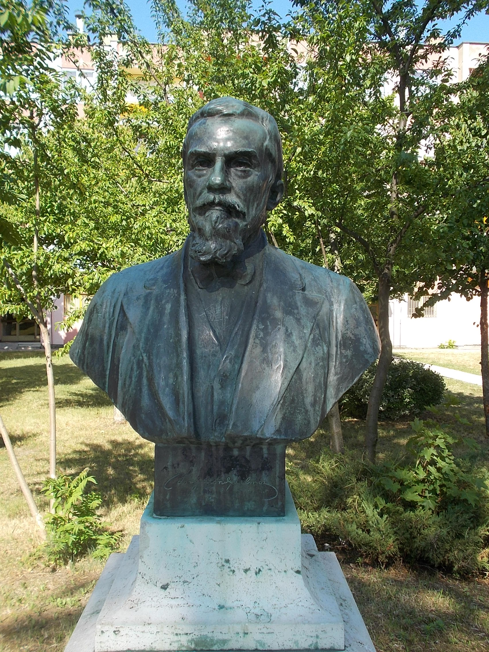 Bust of Vilmos Zsigmondy by Béla Markup. - Köztársaság Street, Dorog, Komárom-Esztergom County, Hungary.